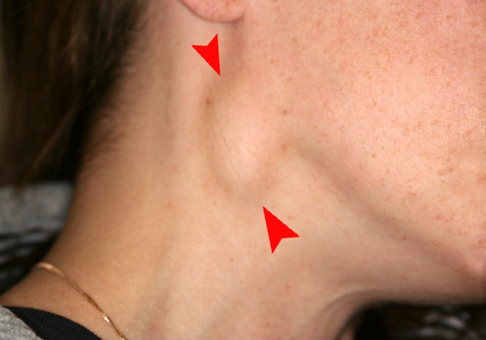 Regional spread of oral squamous cell carcinoma to the right jugulodigastic chain of lymph nodes zone IIa of the neck